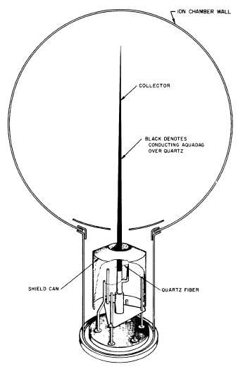 Cross section of the Neher-type ionization chamber of Mariner 2